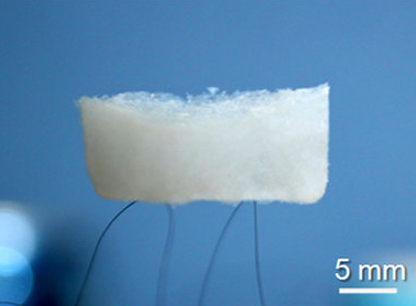 Photograph for a BN aerogel of 1.8 cm3 on human hair with a mass density of 0.6 mg/cm3